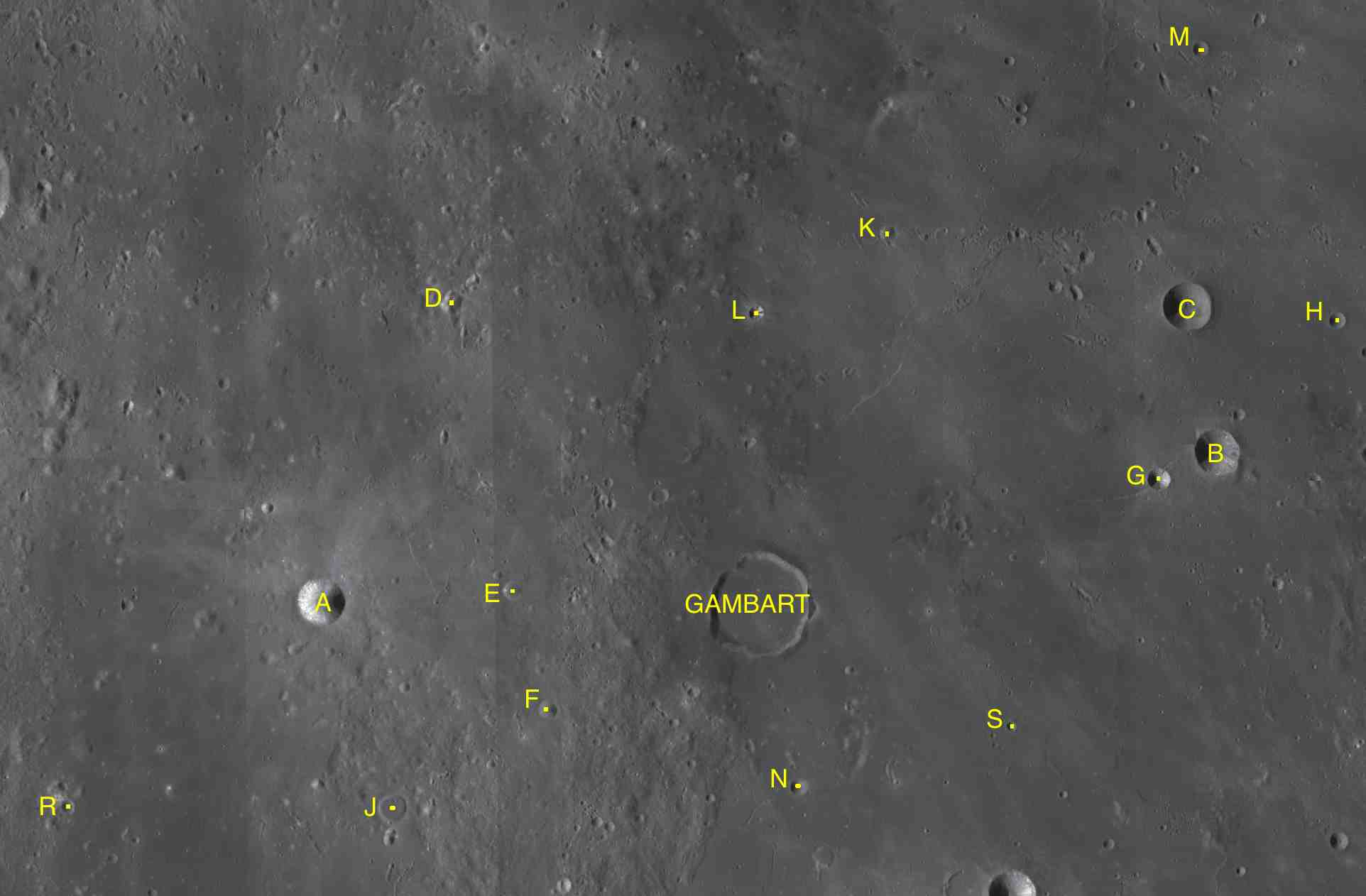 Parts of the charts LAC-58, LAC-76 used for the presentation